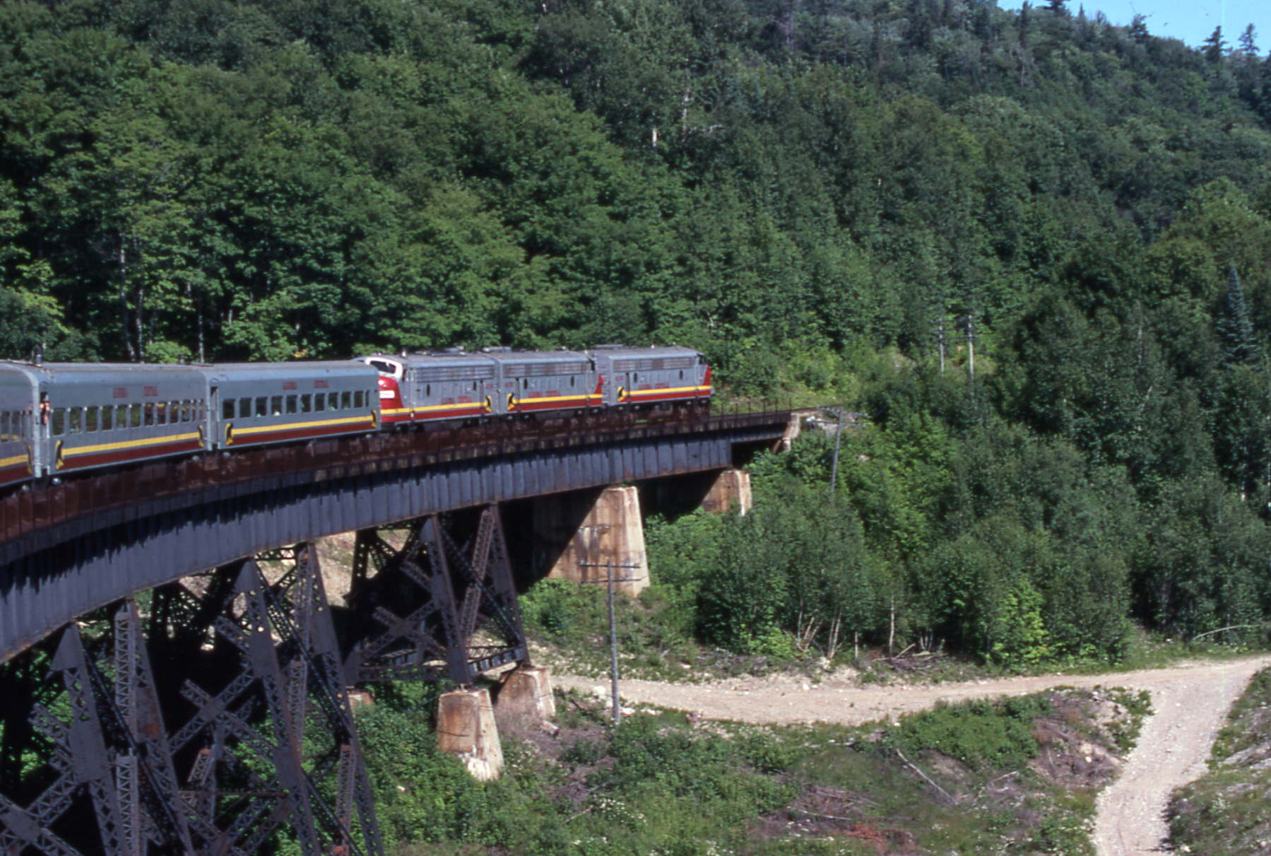 Algoma Central Railway tour train to Agawa Canyon passing Montreal Falls